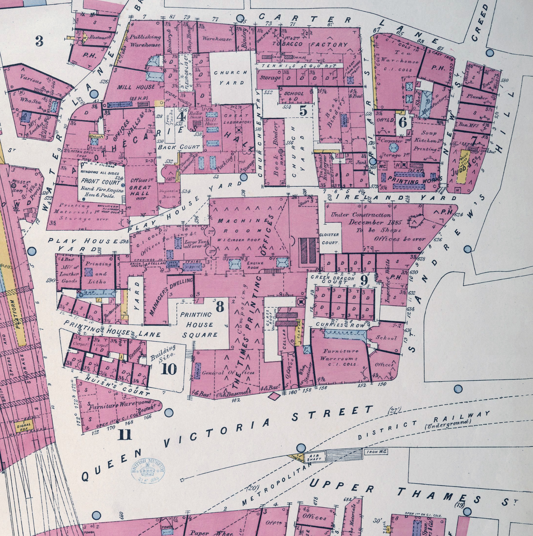 1886 Insurance Plan of the City of London Vol. I: sheet 2. The Author(s) were uncredited 1886 employee(s) of Chas E Goad Limited, a company that no longer exists.